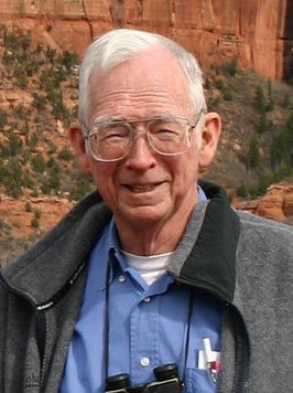 Templeton Prize winner Holmes Rolston III.